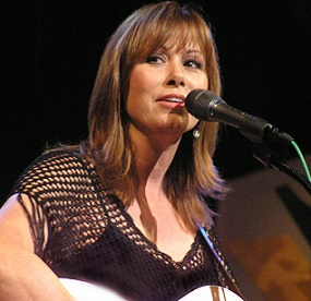 Suzy Bogguss. Taken by Ken/Linda Heaverin at the Grand Ole Opry in Nashville, TN on September 16, 2006